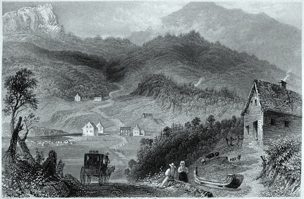 Print, Pass of Bolton, Eastern Townships, William Henry Bartlett (1809-1854), 1840-1842, 22.1 x 28.5 cm